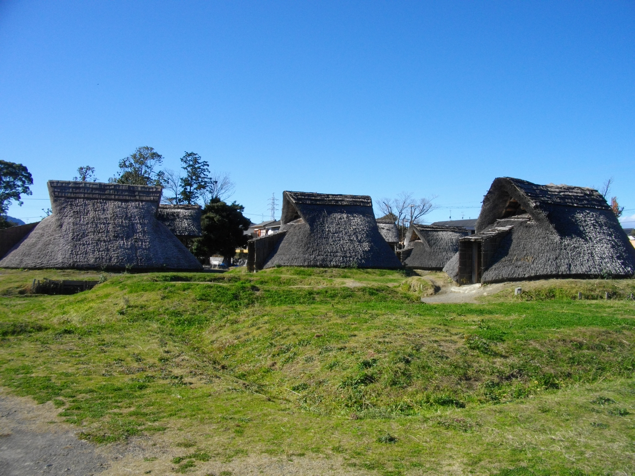 Toro Site